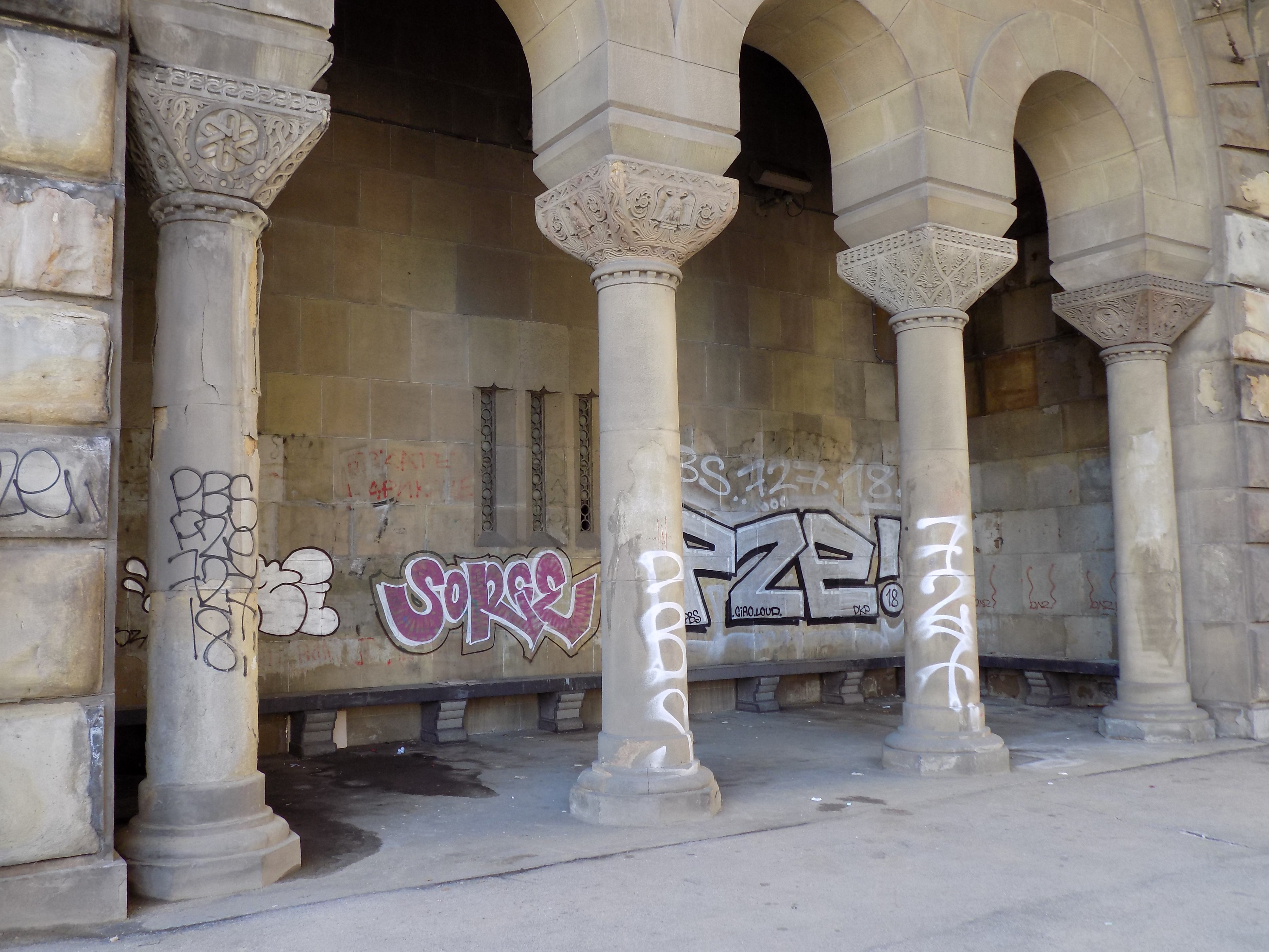 Graffiti under Branko's bridge in Belgrade, Serbia